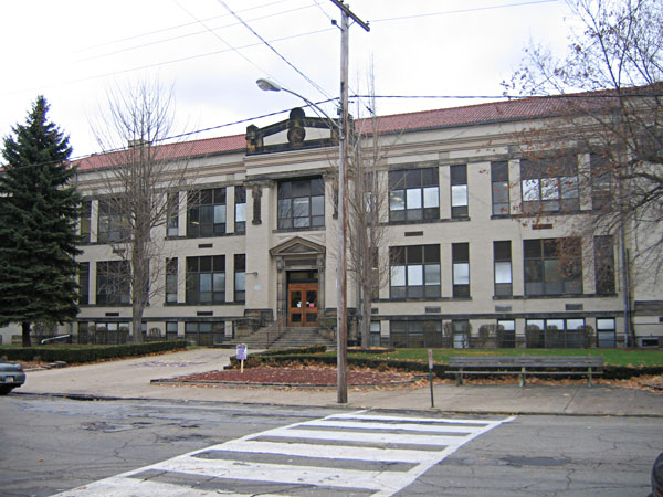 The front entrance to the now demolished Ford City High School.